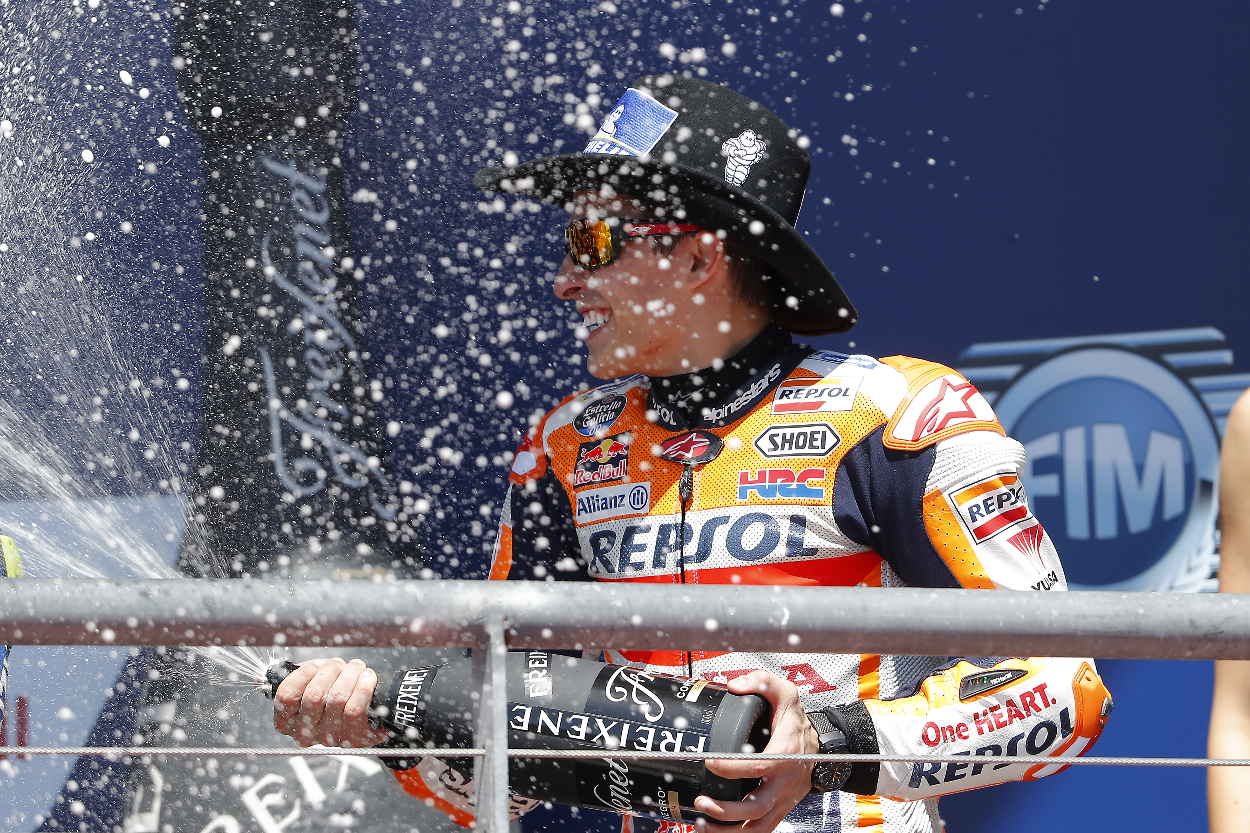 Marc Márquez, celebrating on the podium after winning the 2018 Grand Prix of the Americas.